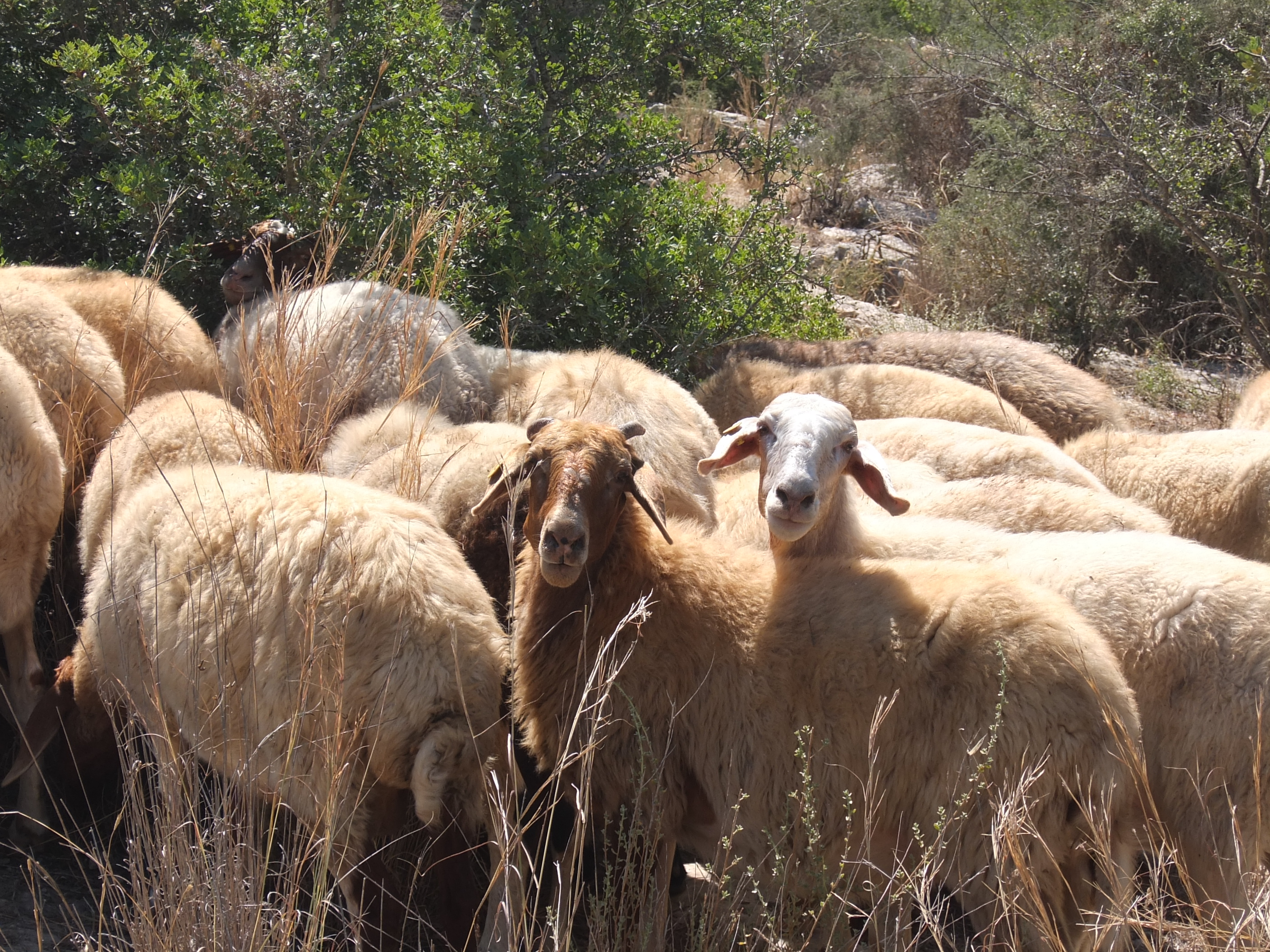 Flock of sheep with stares at photographer